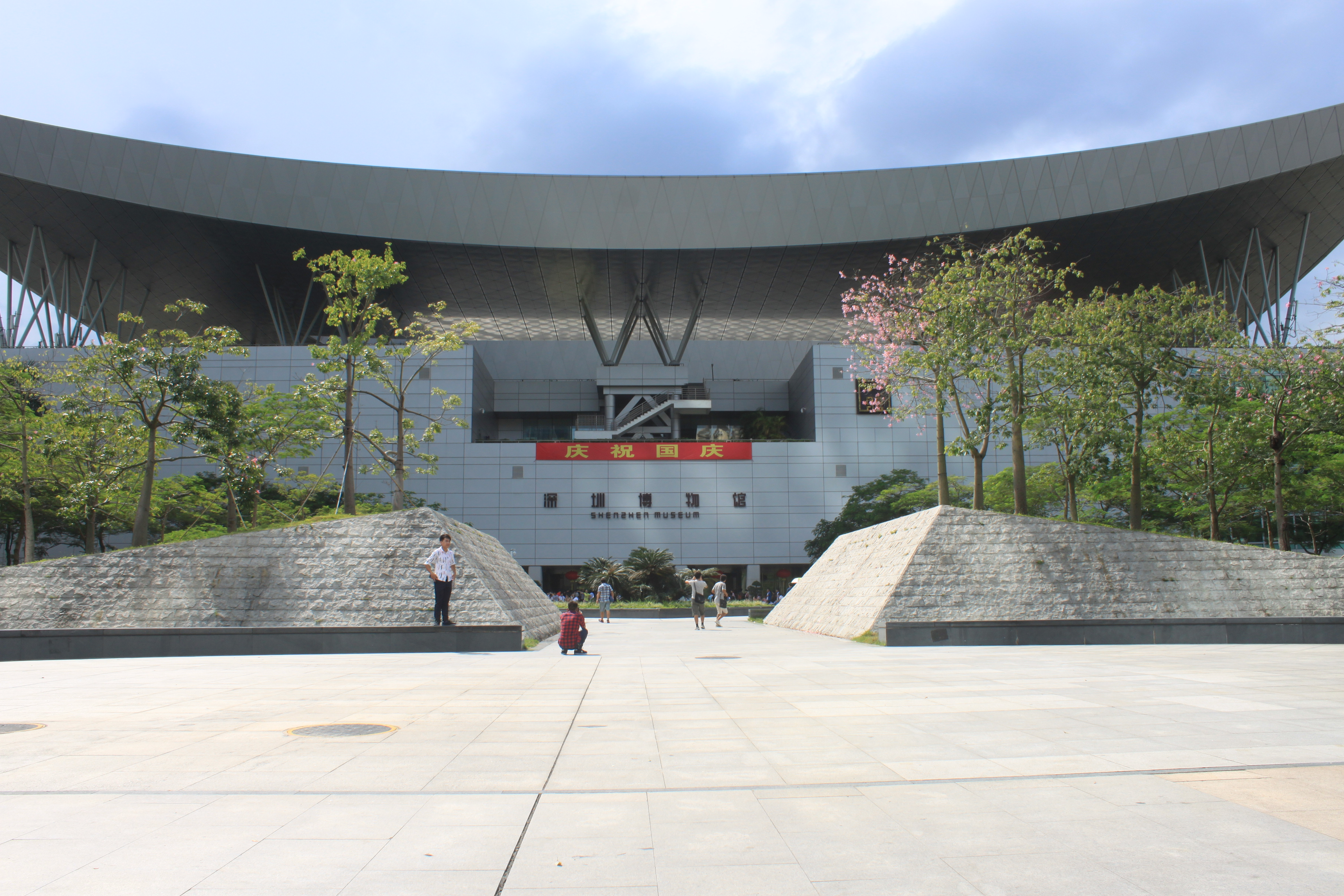 Shenzhen Museum is a museum located in Futian District, Shenzhen, Guangdong, China.